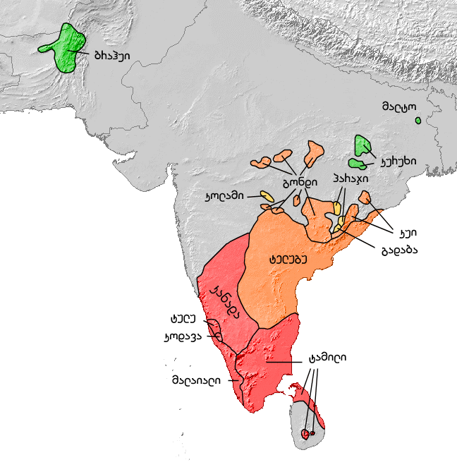 Distribution of the Dravidian languages in South Asia, distinguishing four major subgroups: South (red), South-Central (orange), Central (yellow) and North (green).